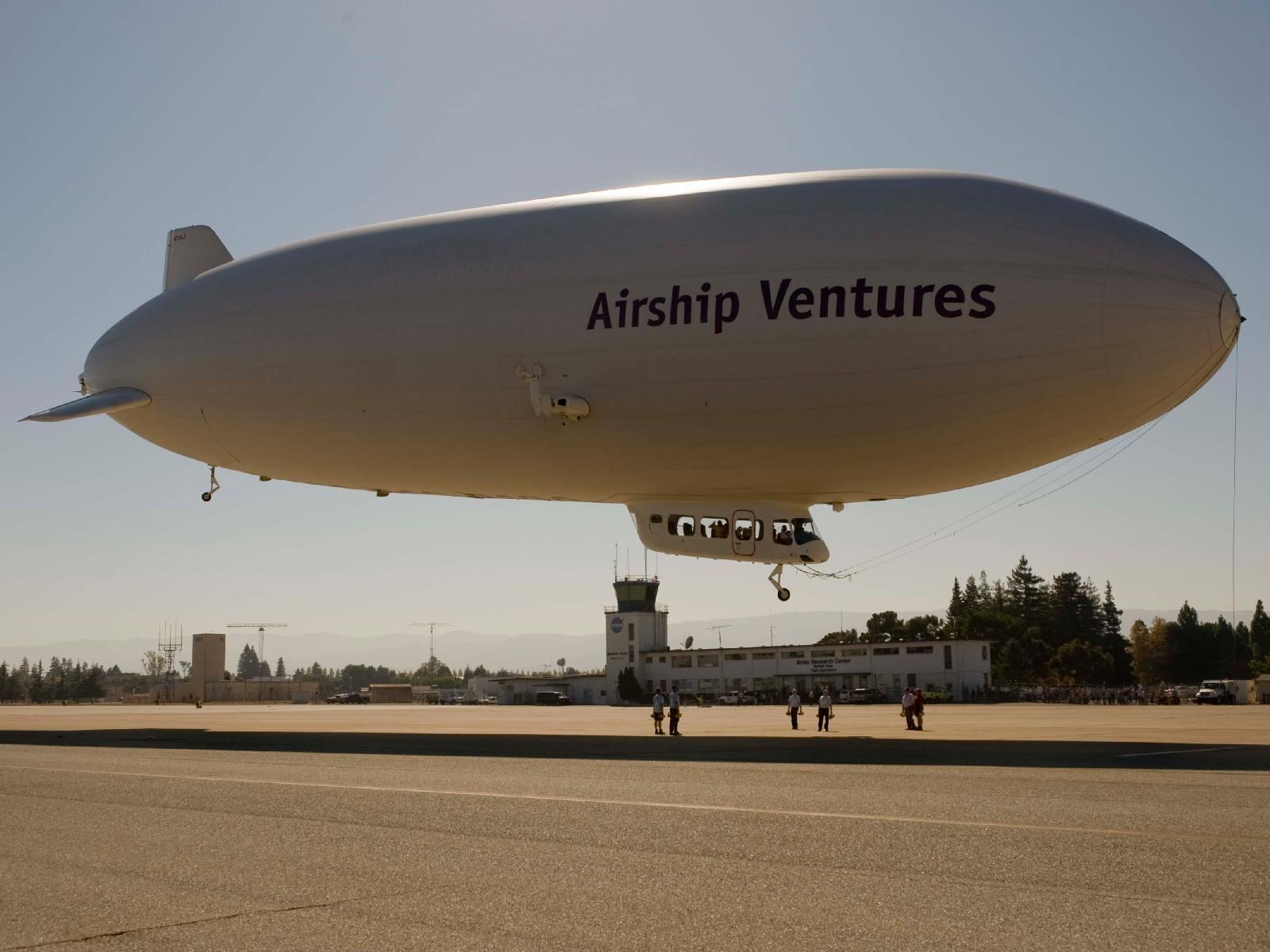 Quoting NASA image description: The Airship Ventures' Zeppelin ended its dramatic cross-country trek and landed at its new base location at Moffett Field on Oct. 25, 2008, at approximately 2 p.m. PDT. This airship is the first to fly over the U.S. for more than 70 years. NASA and Airship Ventures entered into an agreement to use the airship to assist with disaster response agencies, for scientific research and educational training with local science centers and museums. Photo Credit: NASA Ames Research Center / Eric James